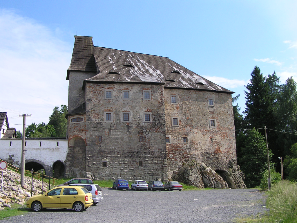 Vildštejn (Wildstone) Castle in Skalná in Czech republic